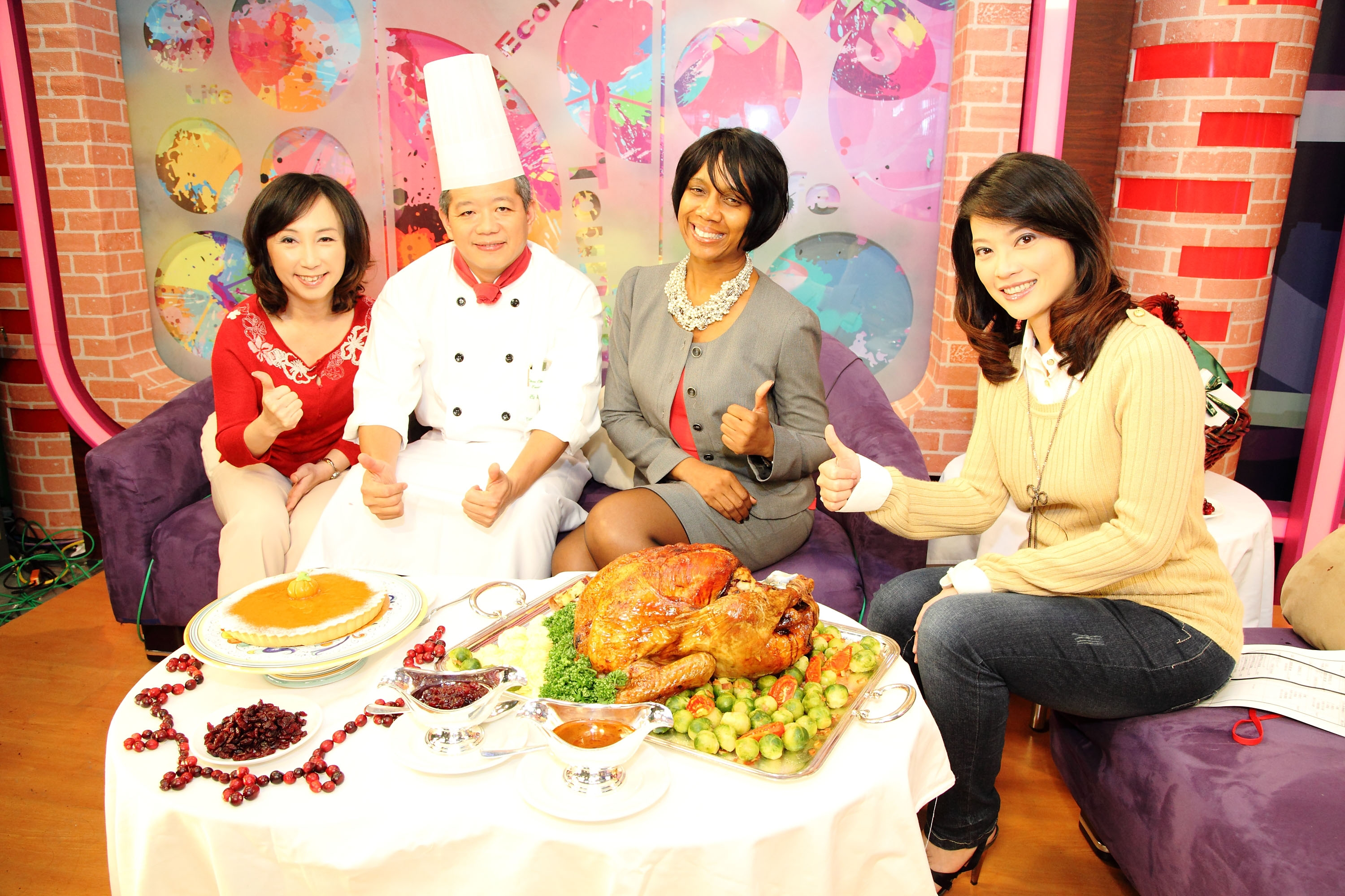 (From left to right) Daisy Hong of Ocean Spray, Chef C.K. Chen of Taipei’s Sherwood Hotel, Valerie Brown of USDA’s Agricultural Trade Office in Taipei, and Puris Hong(洪怡惠), who hosts the China TV Company (中國電視公司) program “King of the Happy Life,”(快樂生活王) showcase American Thanksgiving favorites on an episode of the popular TV show, which airs in Taiwan this week. Photo by A. Jay, Chun-Li Integrated Marketing and Communications Co., Ltd.